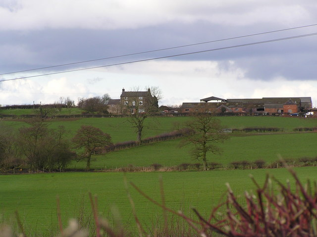 North Pirehill Farm Taken from Staffordshire Fire And Rescue Headquarters, upper floor